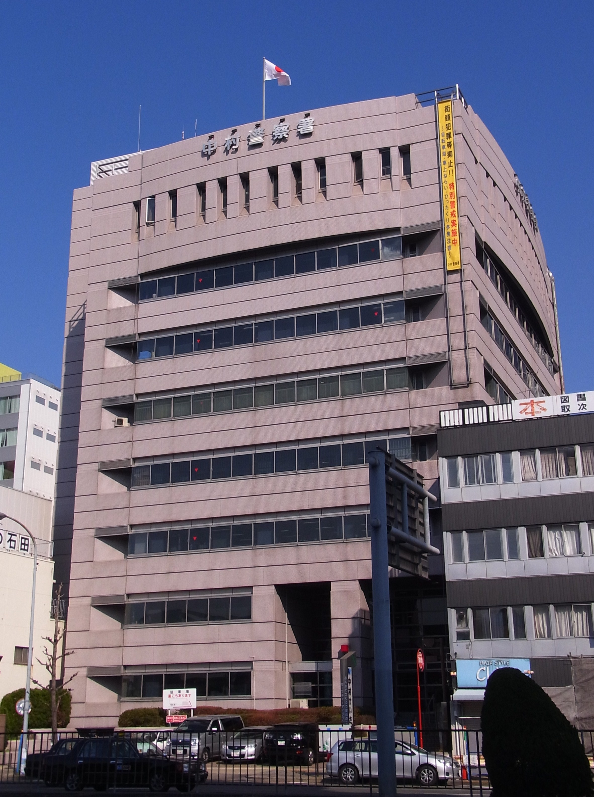 Nakamura Police Station in Nakamura-ku Ward, Nagoya City.